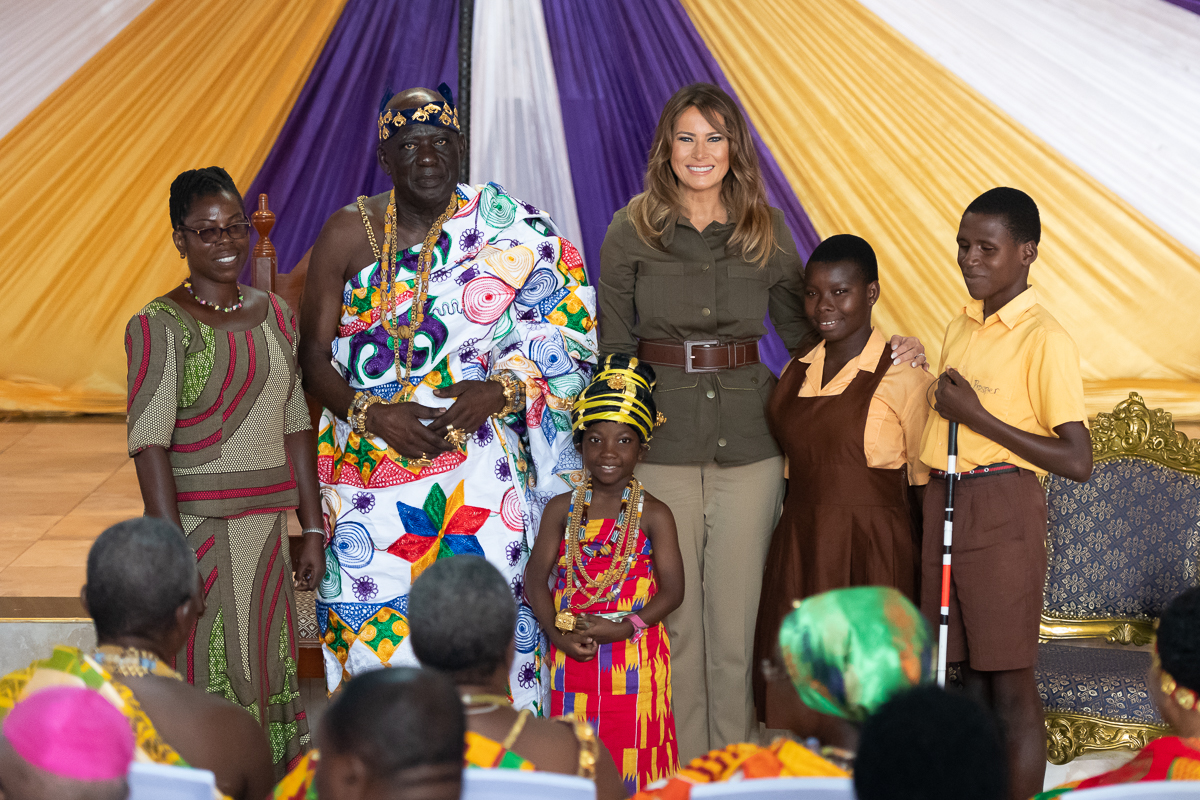 First Lady Melania Trump poses for photos with the Cape Coast’s Paramount Chief, Osabarimba Kwesi Atta II, chieftains and guests Wednesday, Oct. 3, 2018, at the Emintsimadze Palace in Cape Coast, Ghana. (Official White House Photo by Andrea Hanks)